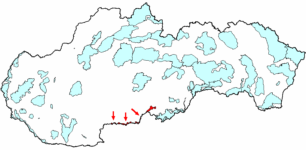 poiplie